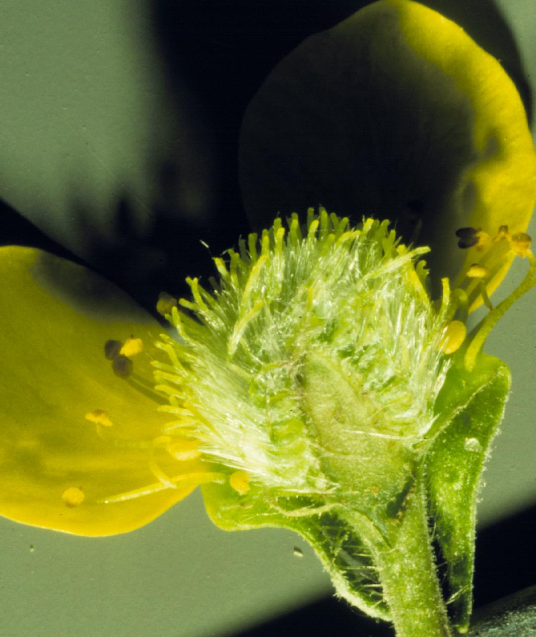 The receptacle is conical.